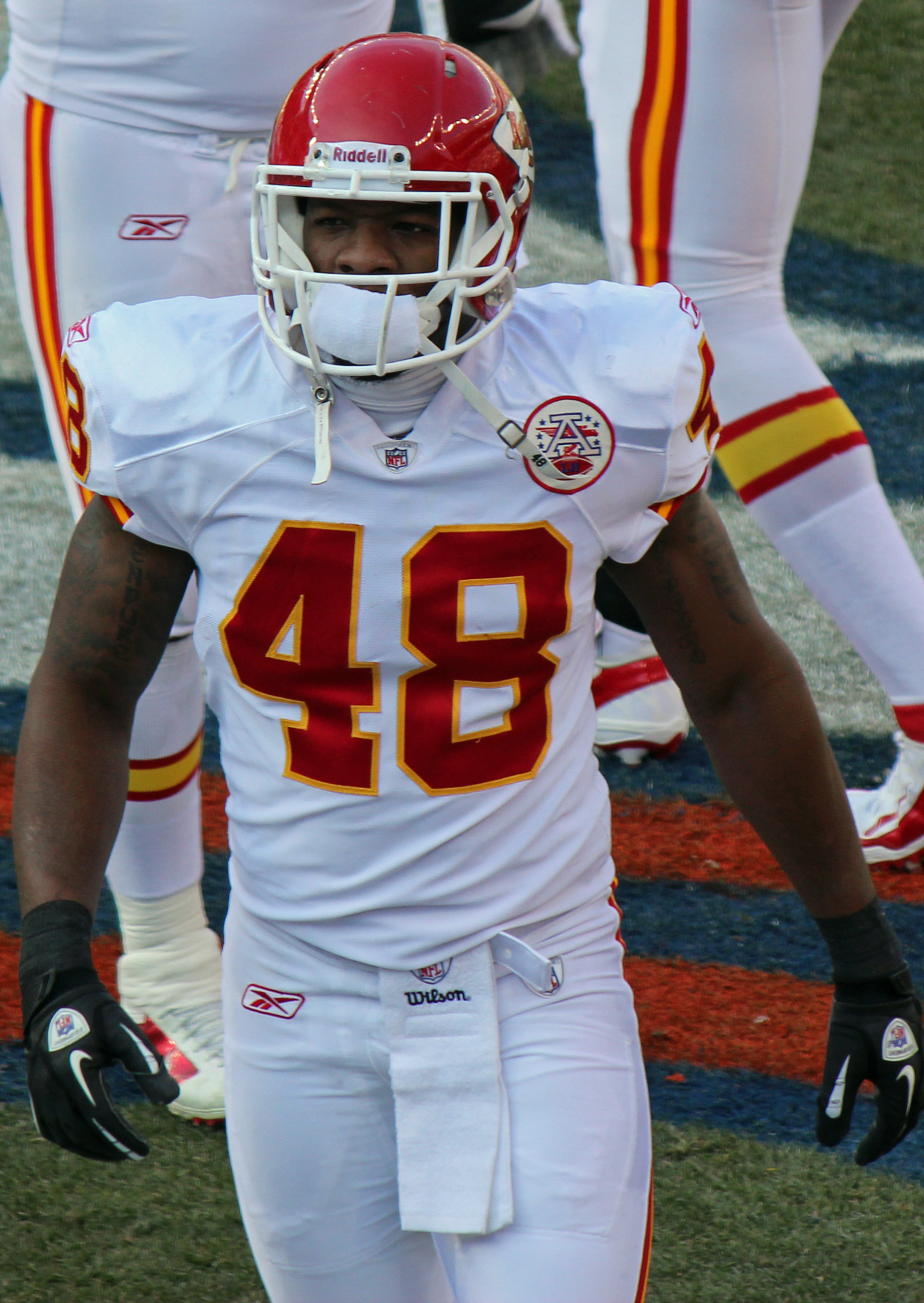 Reshard Langford, a player on the National Football League.